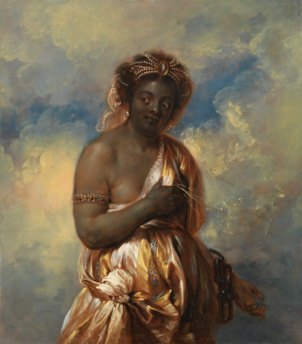 from the Continents Cycle